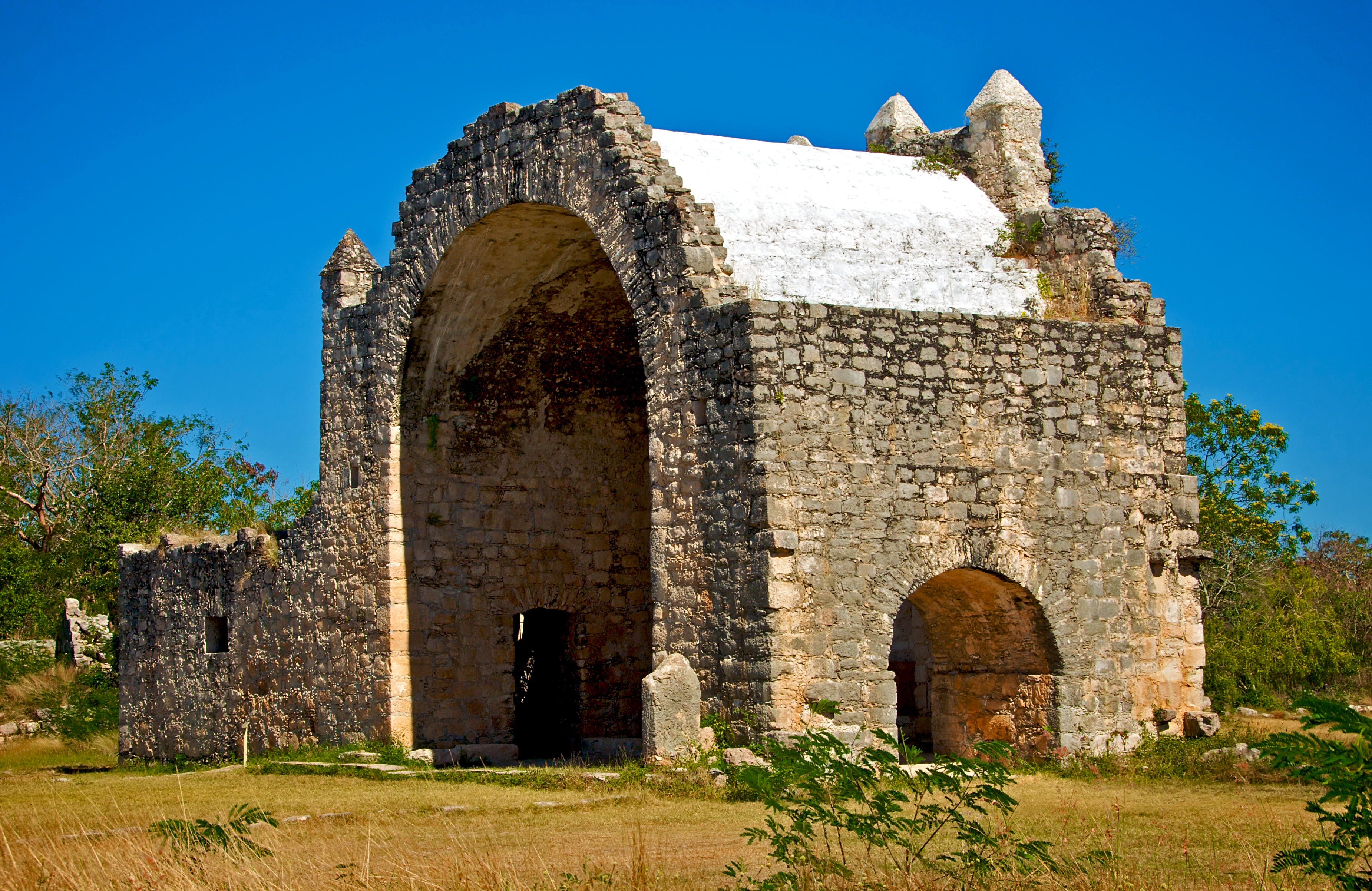 Ruins of the colonial open chapel at Dzibilchaltún in Yucatán, Mexico. Seen from the southwest.